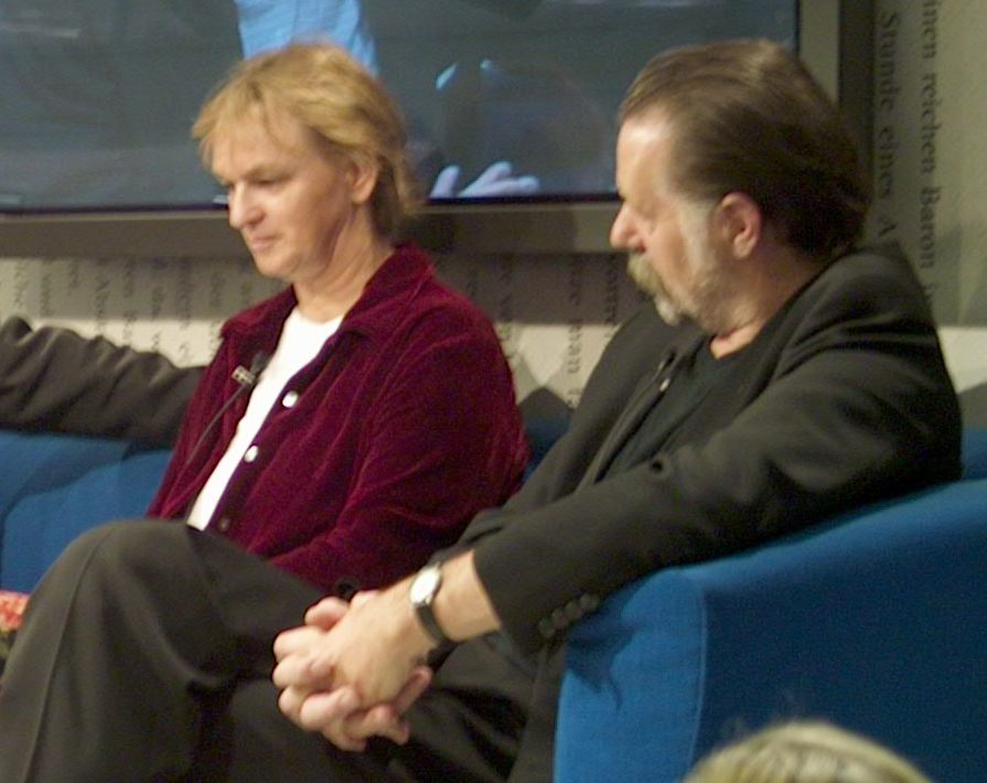 German authors and former spouses Elke Heidenreich and Bernd Schroeder on the Blue Sofa. Copyright: Das Blaue Sofa / Club Bertelsmann.